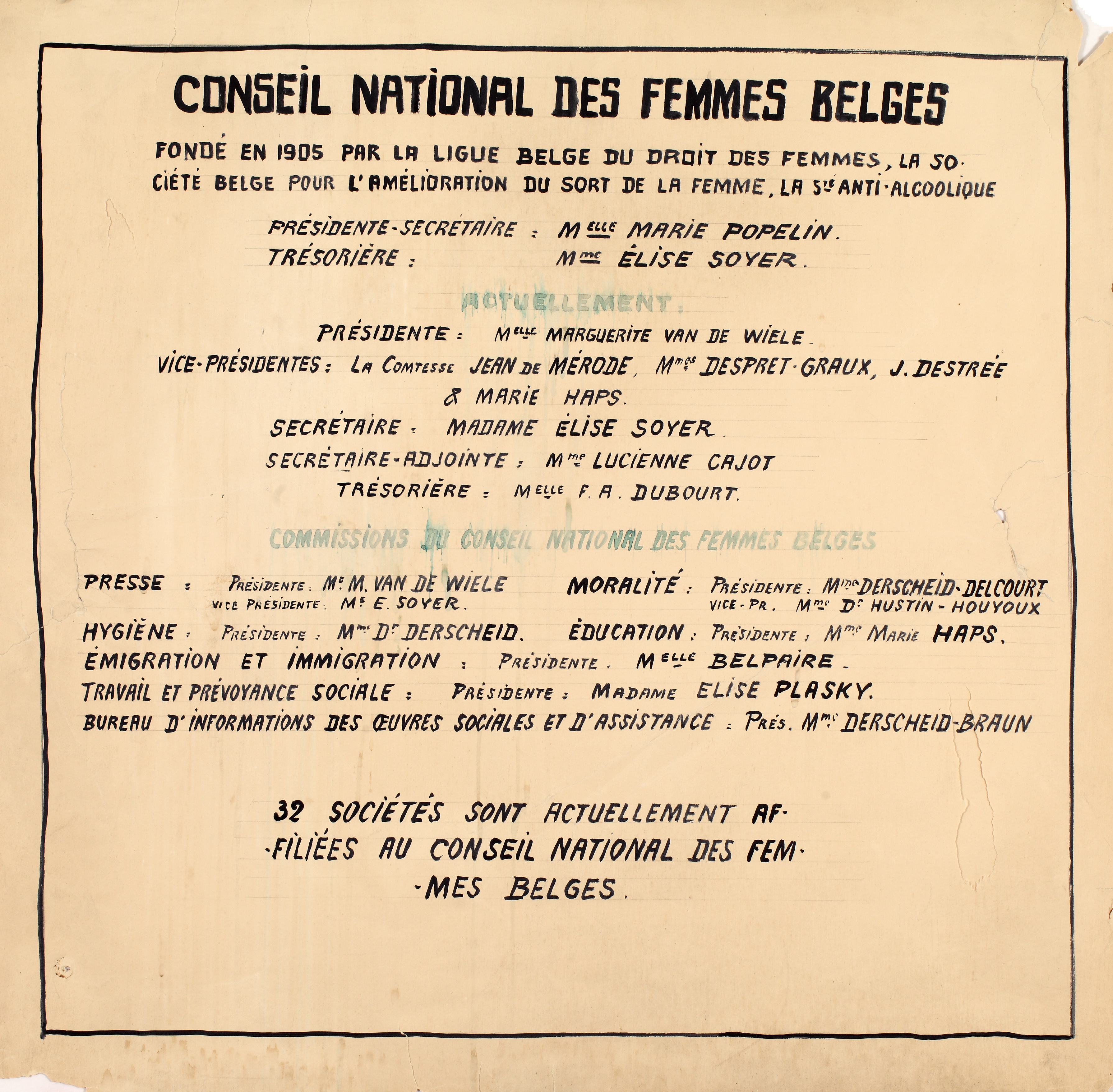 List of the members to the National Council of Belgian Women